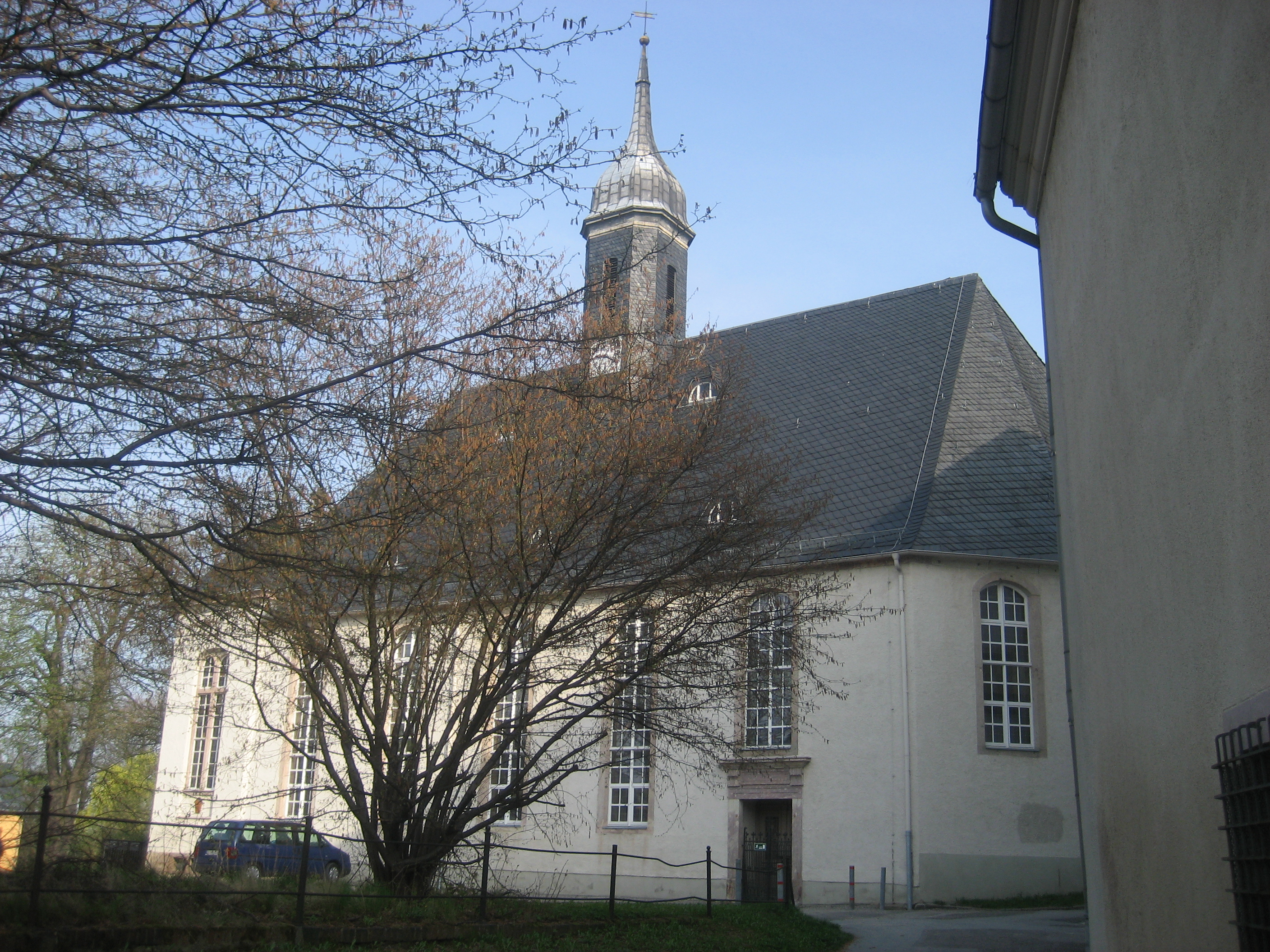 Church Limbach (Limbach-Oberfrohna)